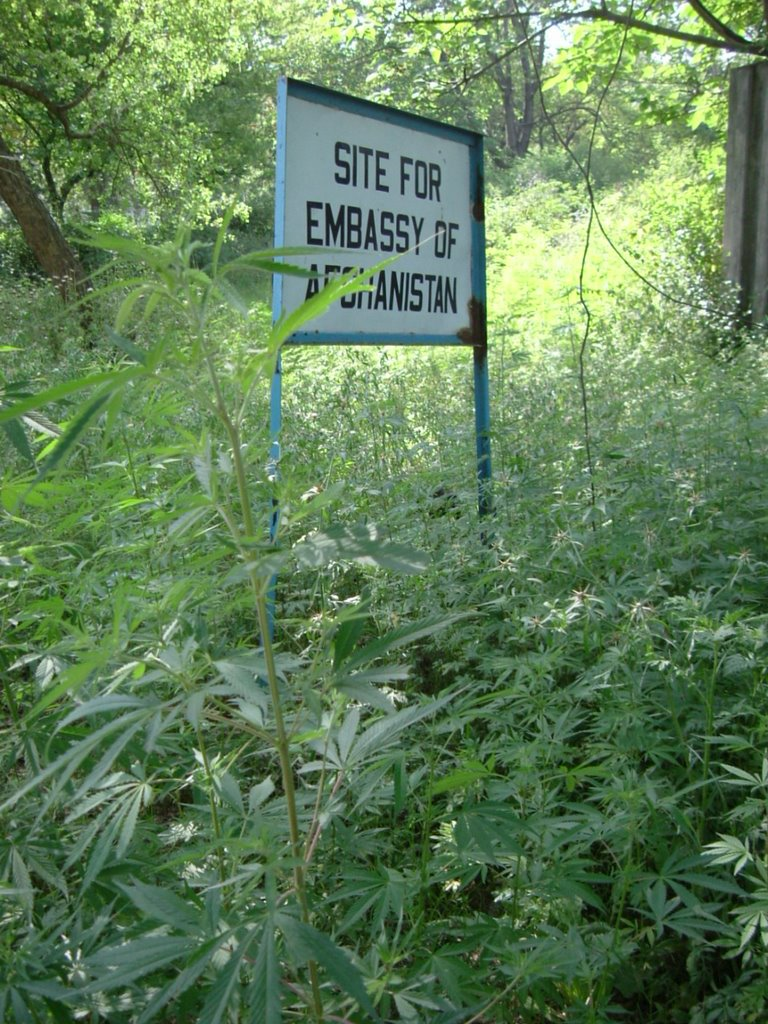 Empty plot for Afghan embassy